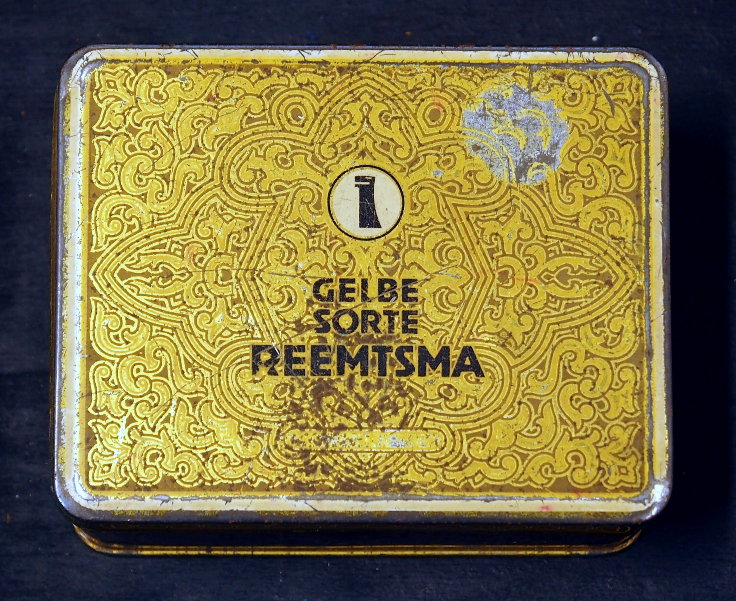 Old product not sold anymore!